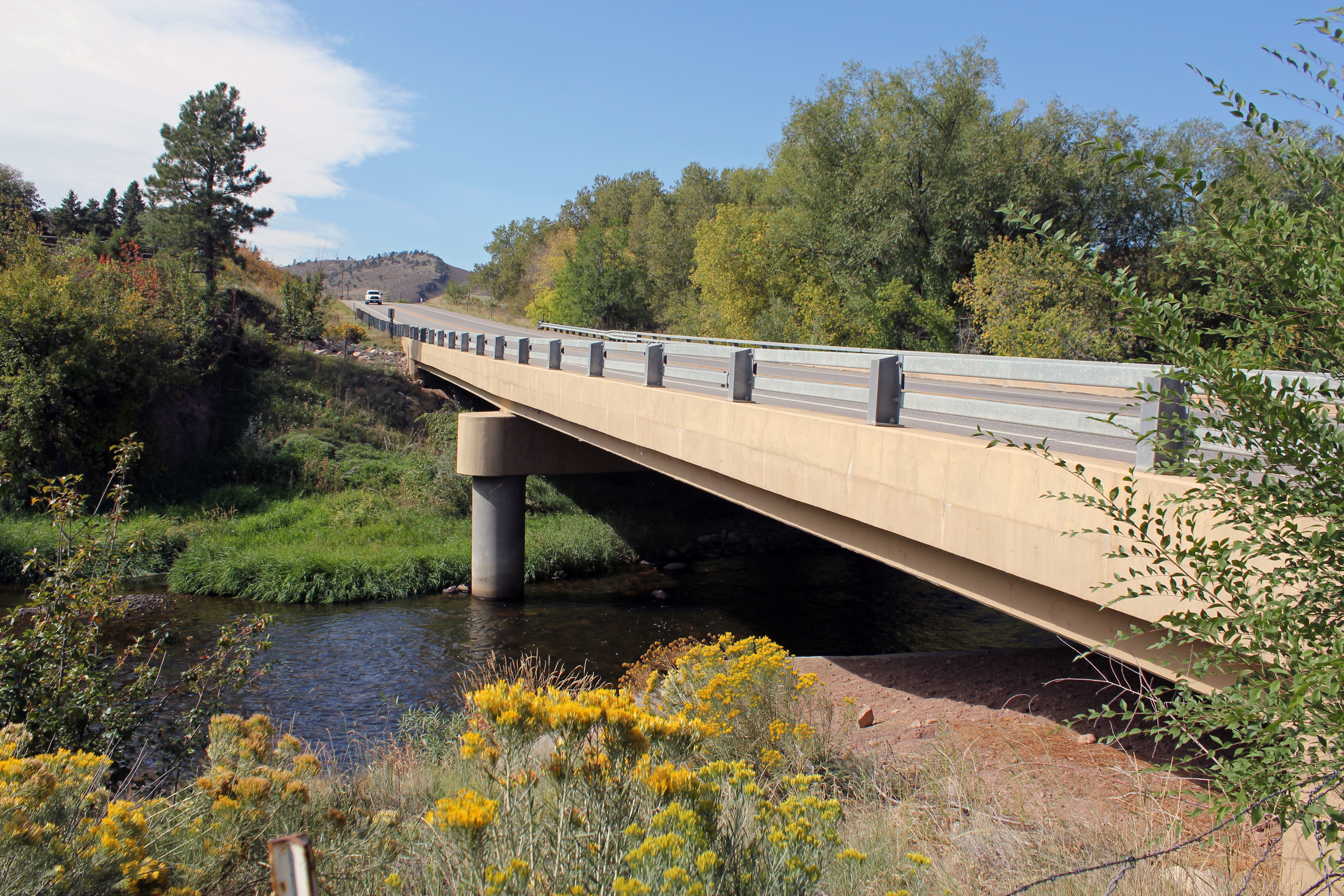 The current version of the Big Thompson River Bridge III, located on U.S. Route 34 at milepost 85.15, near Loveland, Colorado. The former historic bridge was listed on the National Register of Historic Places and has not yet been delisted, though historic integrity --notably the camelback pony truss structure-- has entirely been lost.